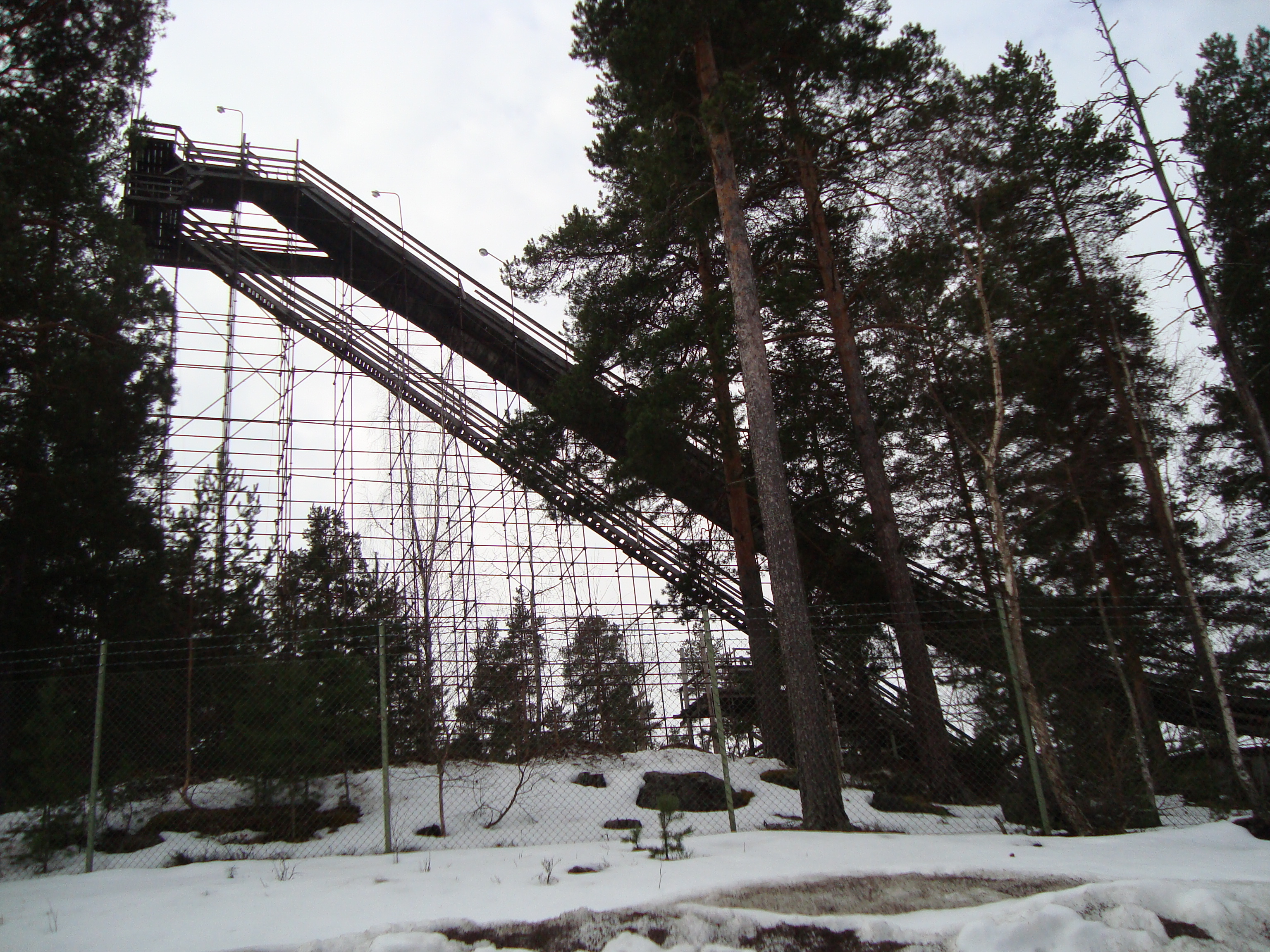 Ski jumping hills at Kvarnberget, Falun, Sweden.